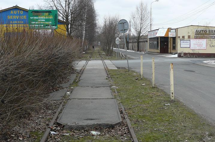 Poznan, Sredzka Street. Ex Sredzka Railway.